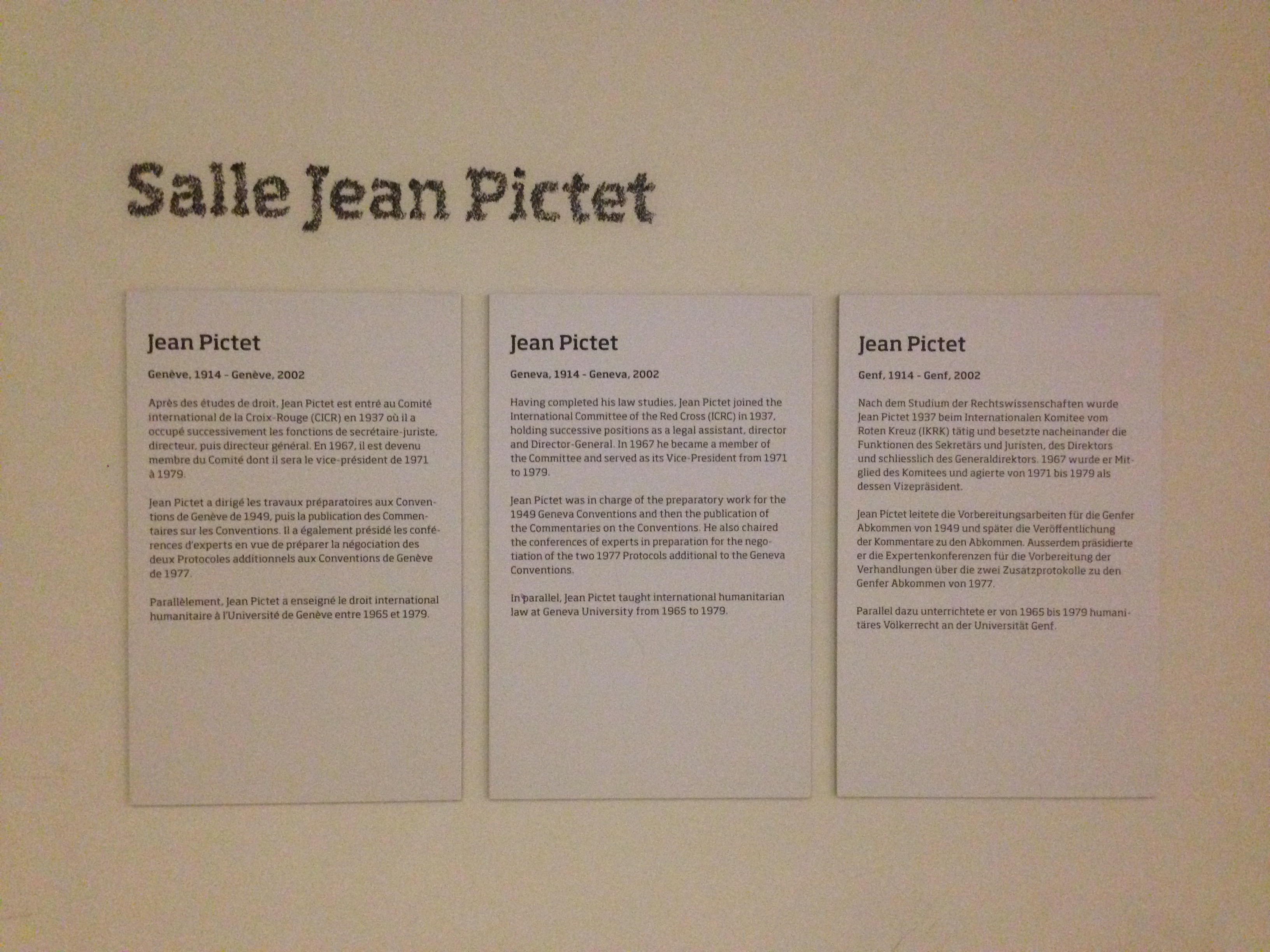 "Salle Jean Pictet" - a hall named after Jean Pictet (1914-2002), the Swiss jurist best known as an expert on international humanitarian law (IHL), in the International Red Cross and Red Crescent Museum in Geneva, Switzerland. He started working for the International Committee of the Red Cross (ICRC) in 1937 and was instrumental in drafting the 1949 Geneva Conventions for the protection of victims of war. Pictet served as the Vice President of the ICRC from 1971 to 1979. - Photo taken and uploaded in the context of the International Archives Week 2020 of Wikimedia Switzerland, Austria and Germany and the Association of Swiss Archivists.